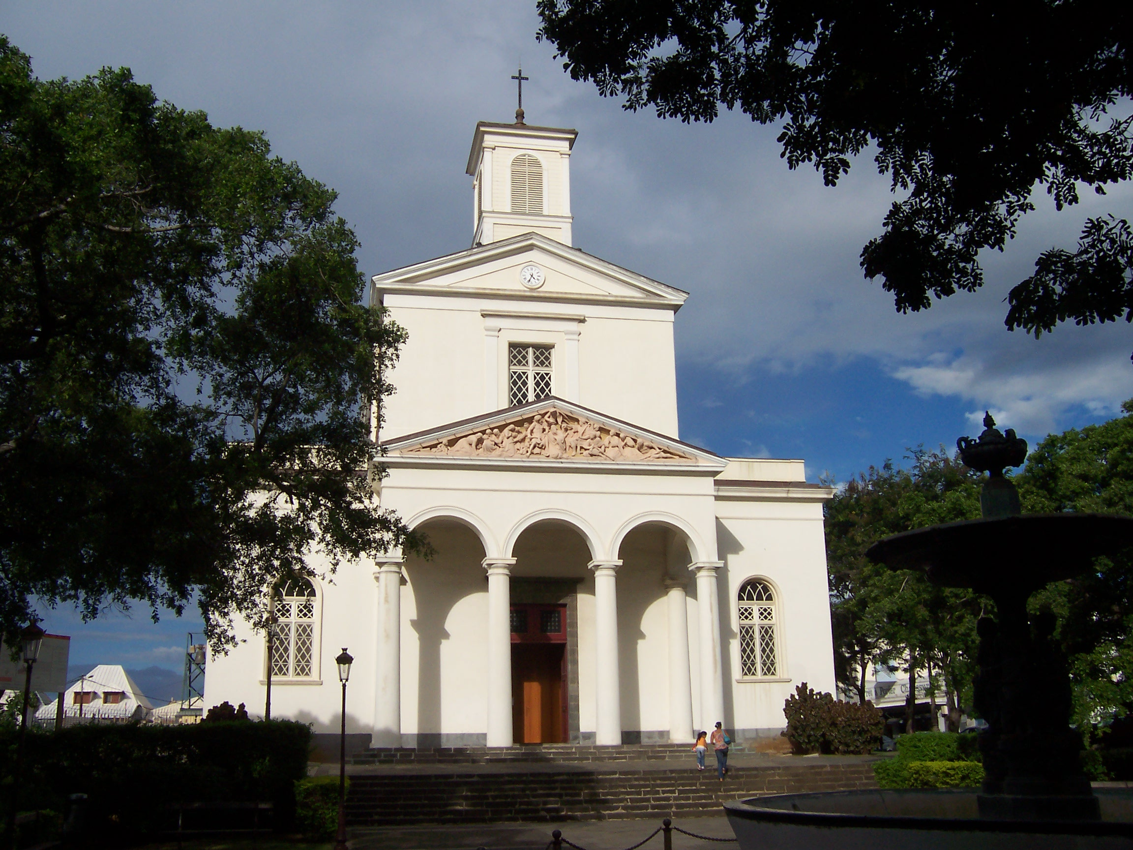 The Cathedral of Saint-Denis (Réunion island) Photo : B.navez - 23 MAR 2006